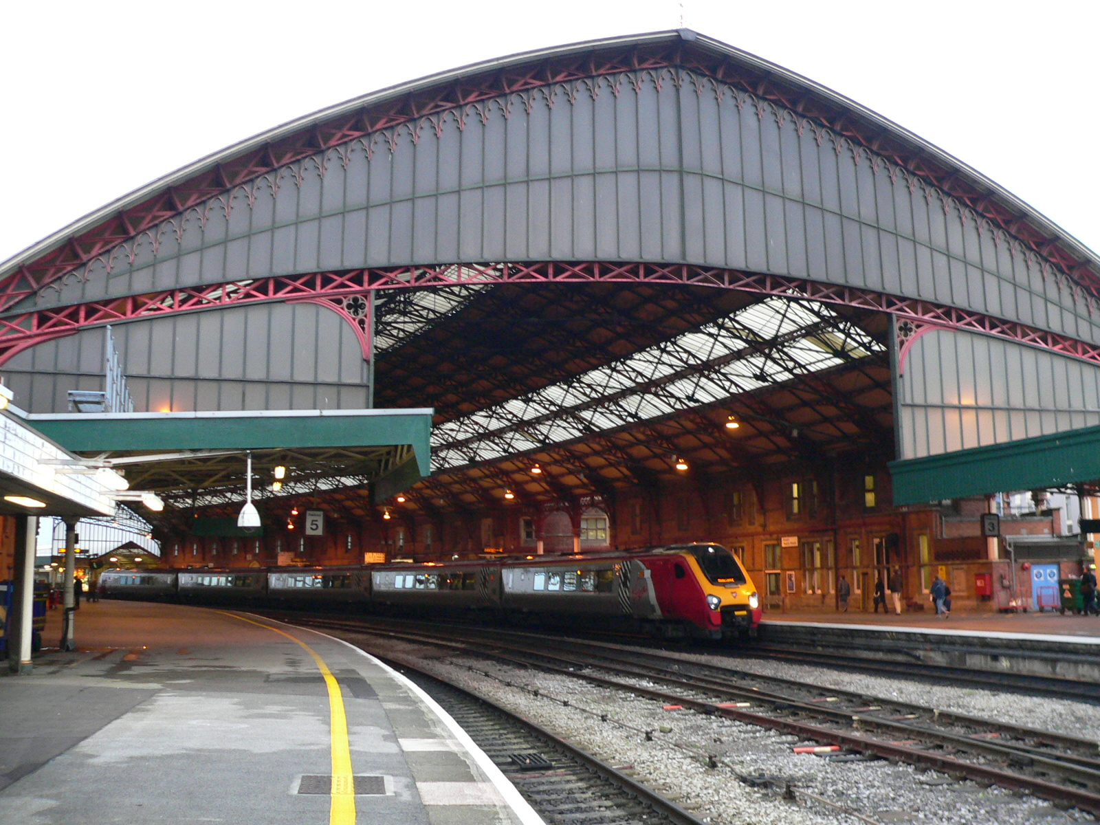 Northbound Class 221 Virgin Voyager DEMU 221140 stands at platform 3 of Bristol Temple Meads, beneath the magnificent roof of the main trainshed.